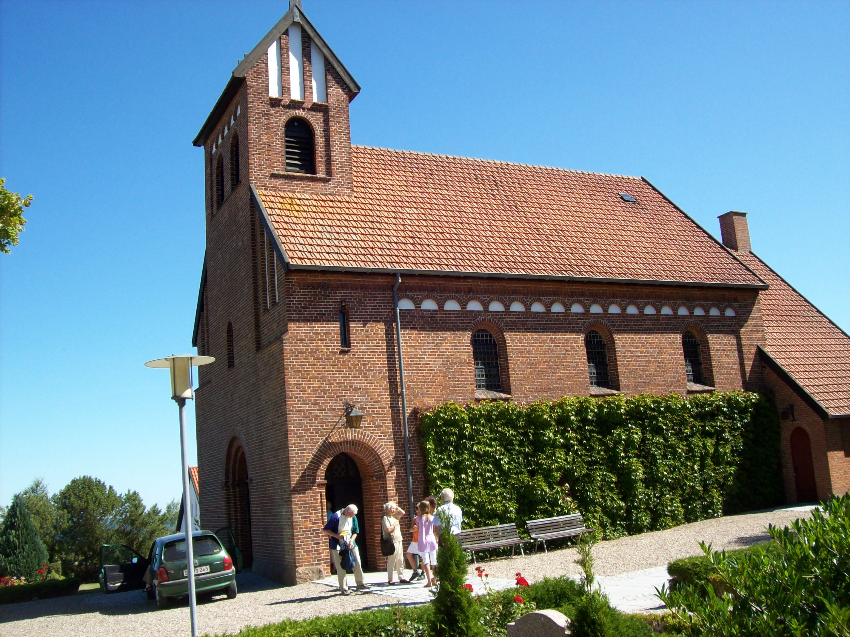 Church in Lumsås, Denmark